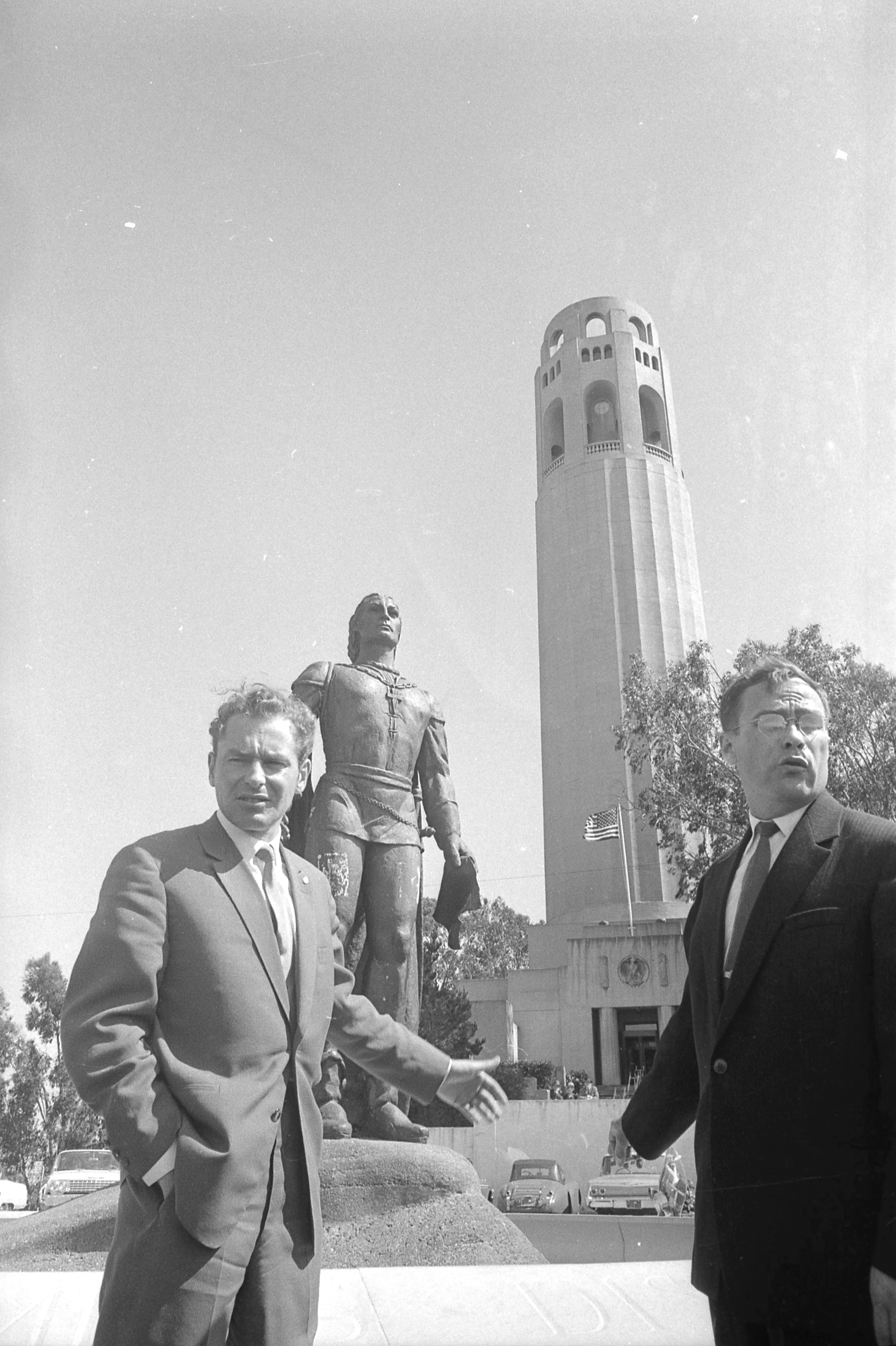 Gherman Titov stands by the statute of Christopher Columbus with Coit Tower in the background. Overheard the remark 'Columbus discovered the world was round so you could go around it'.